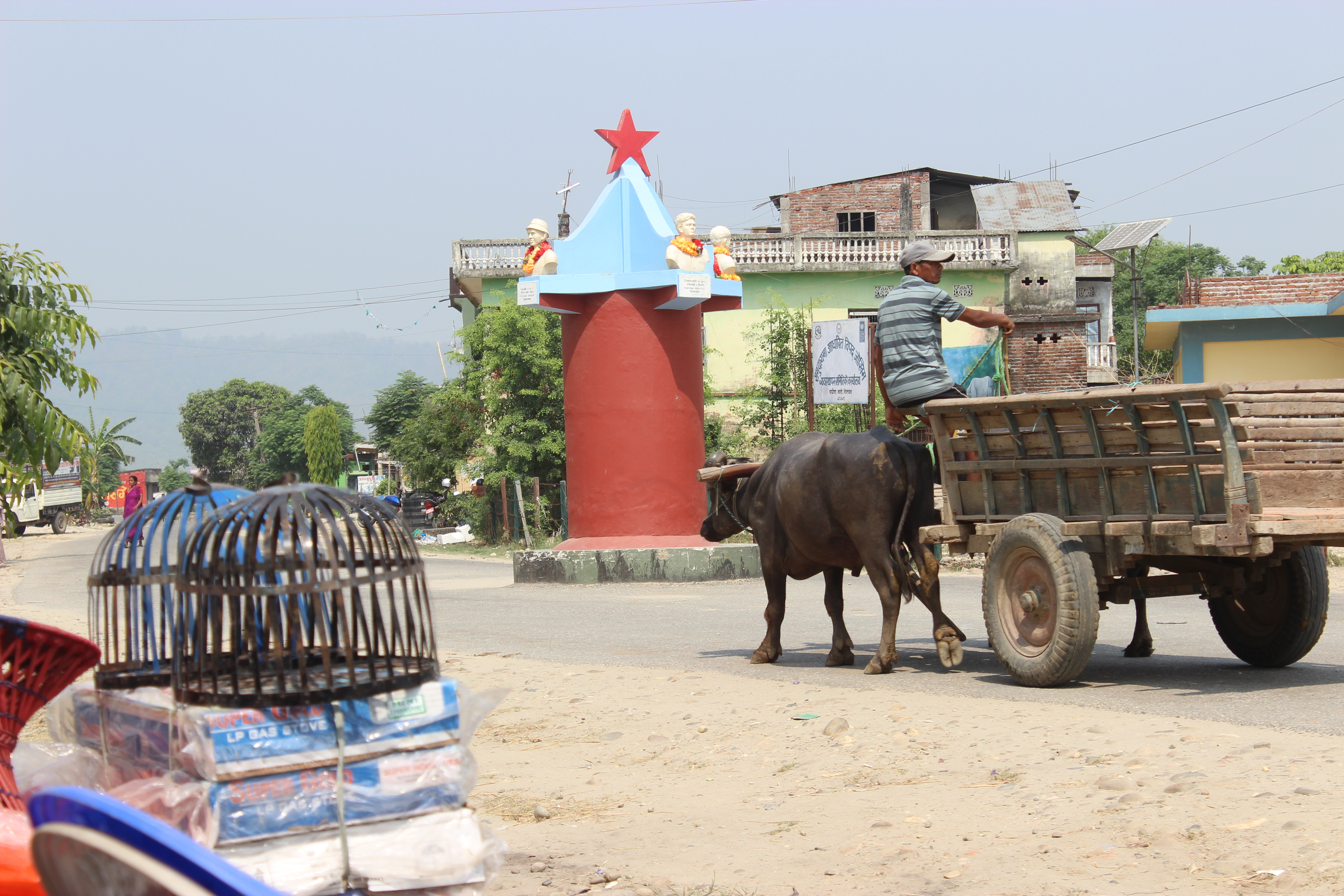 Middle of Basantapur Bazaar Sahid Chowk at Madi, Chitwan